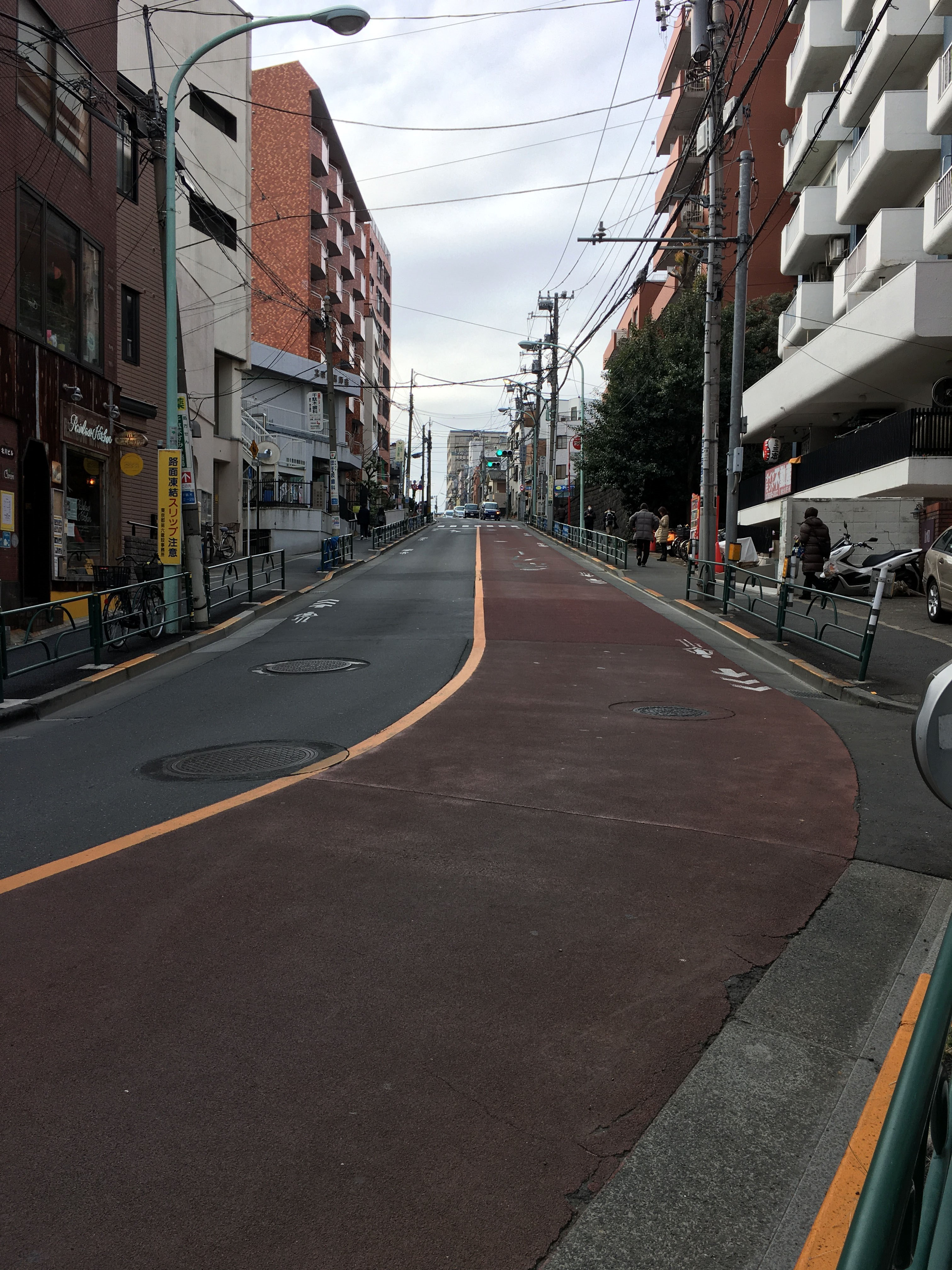 Dangozaka ("Dumpling Slope") in Tokyo, Japan